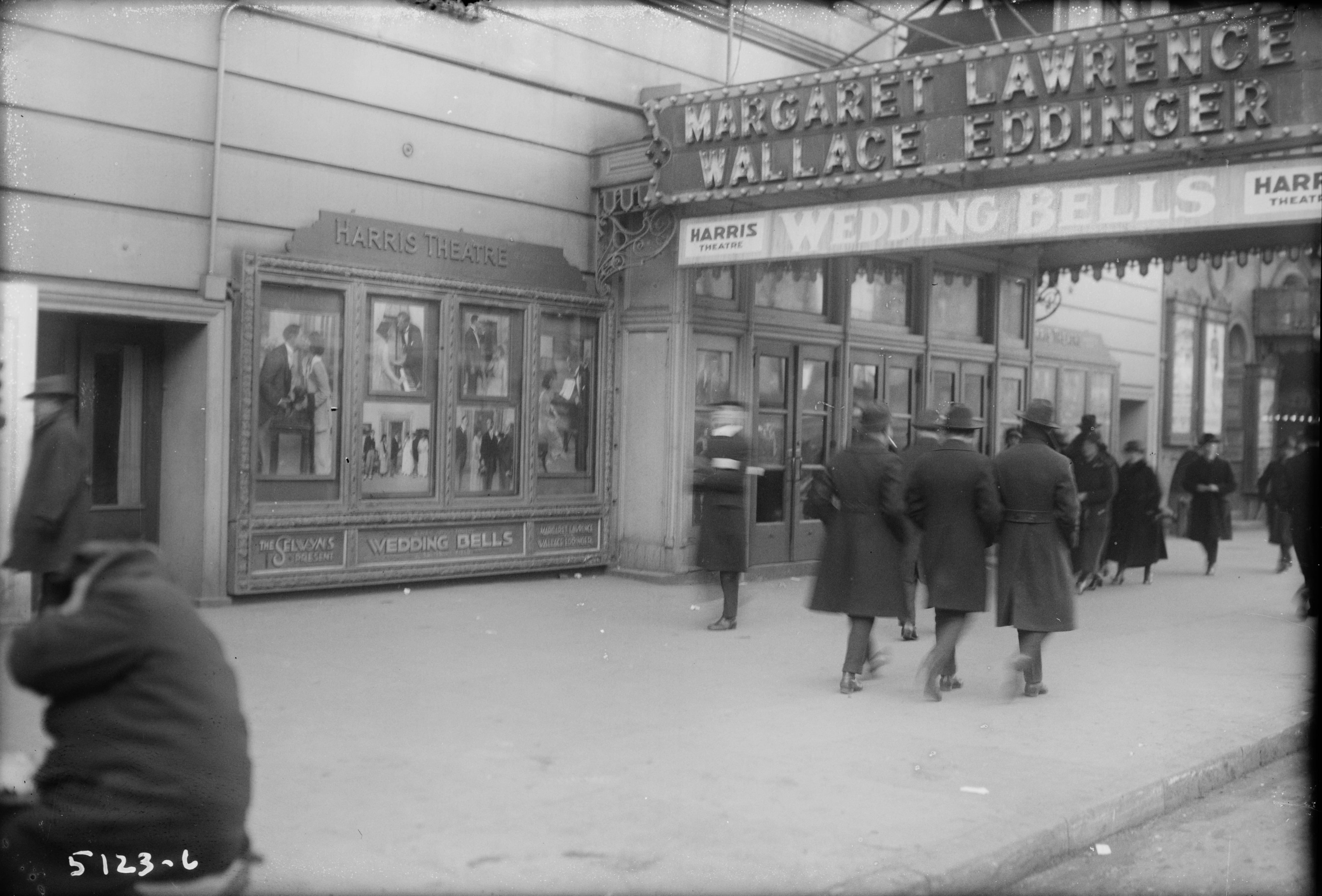 Harris Theatre Marquee - late 1919 or early 1920, showing the play Wedding Bells featuring Walter Eddinger and Margaret Lawrence